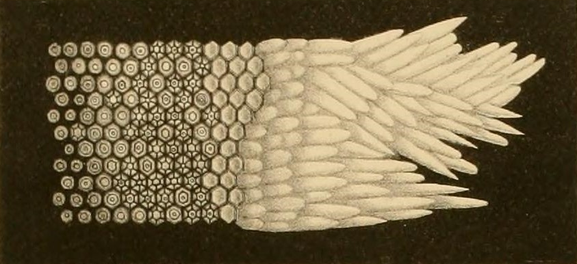 Drawings of photoreceptors by Adolph Hannover from his paper 'Mikroskopiske undersögelser af nervesystemet', 1843